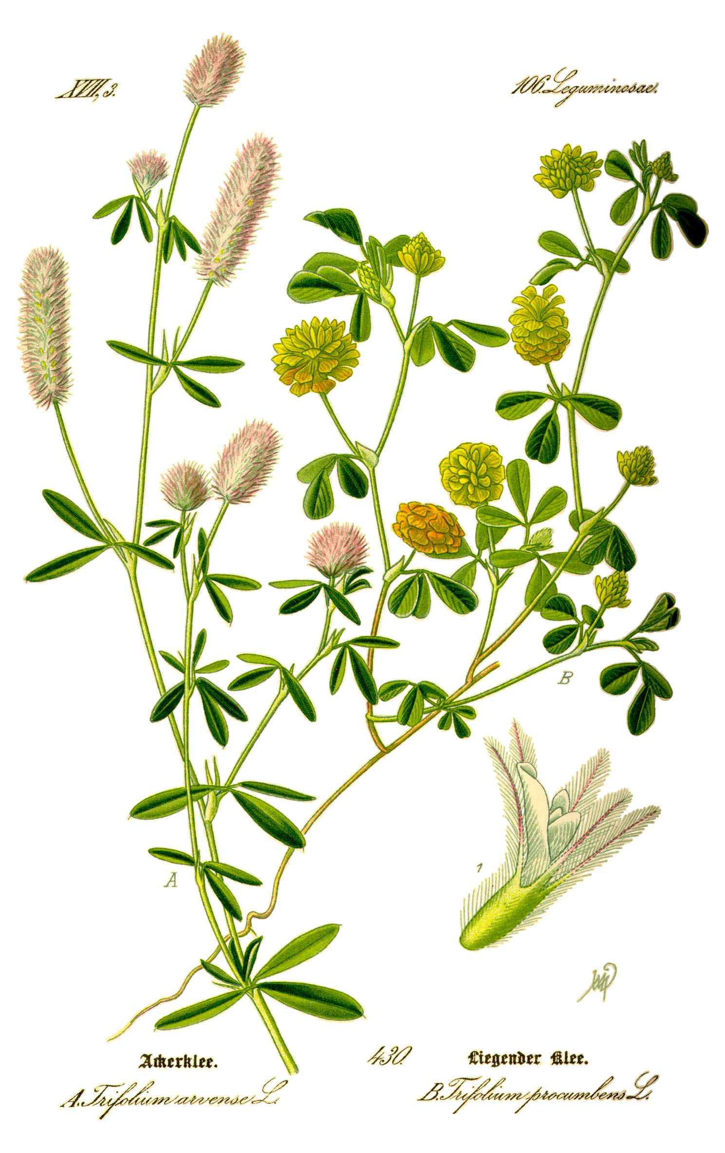 Name Trifolium campestris Family:Fabaceae Original book source: Prof. Dr. Otto Wilhelm Thomé Flora von Deutschland, Österreich und der Schweiz 1885, Gera, Germany Permission granted to use under GFDL by Kurt Stueber